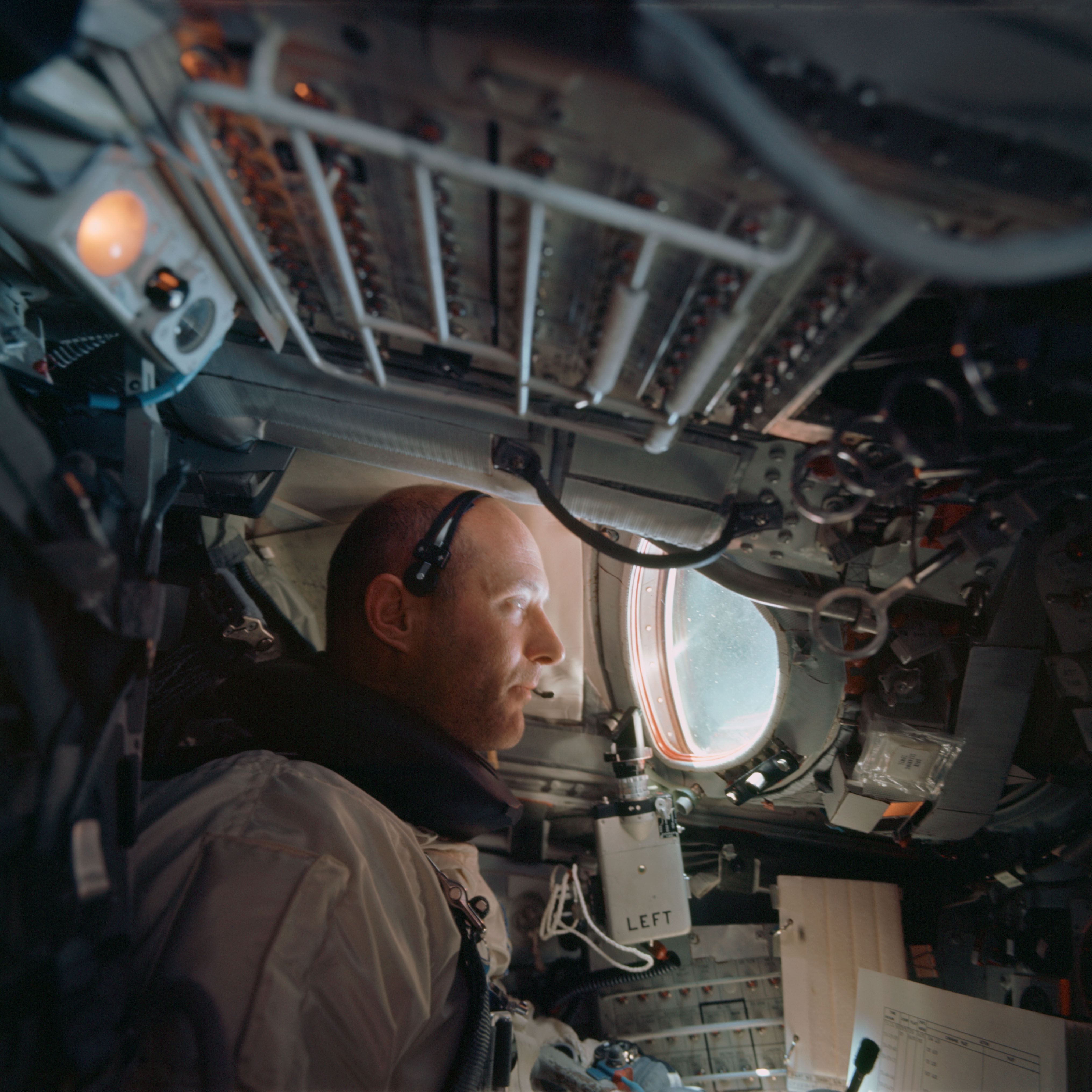 Astronaut Thomas P. Stafford, command pilot of the Gemini 9-A space flight, is photographed during the Gemini 9 mission inside the spacecraft by Astronaut Eugene Cernan, Gemini 9 pilot. Image ID: S66-38080